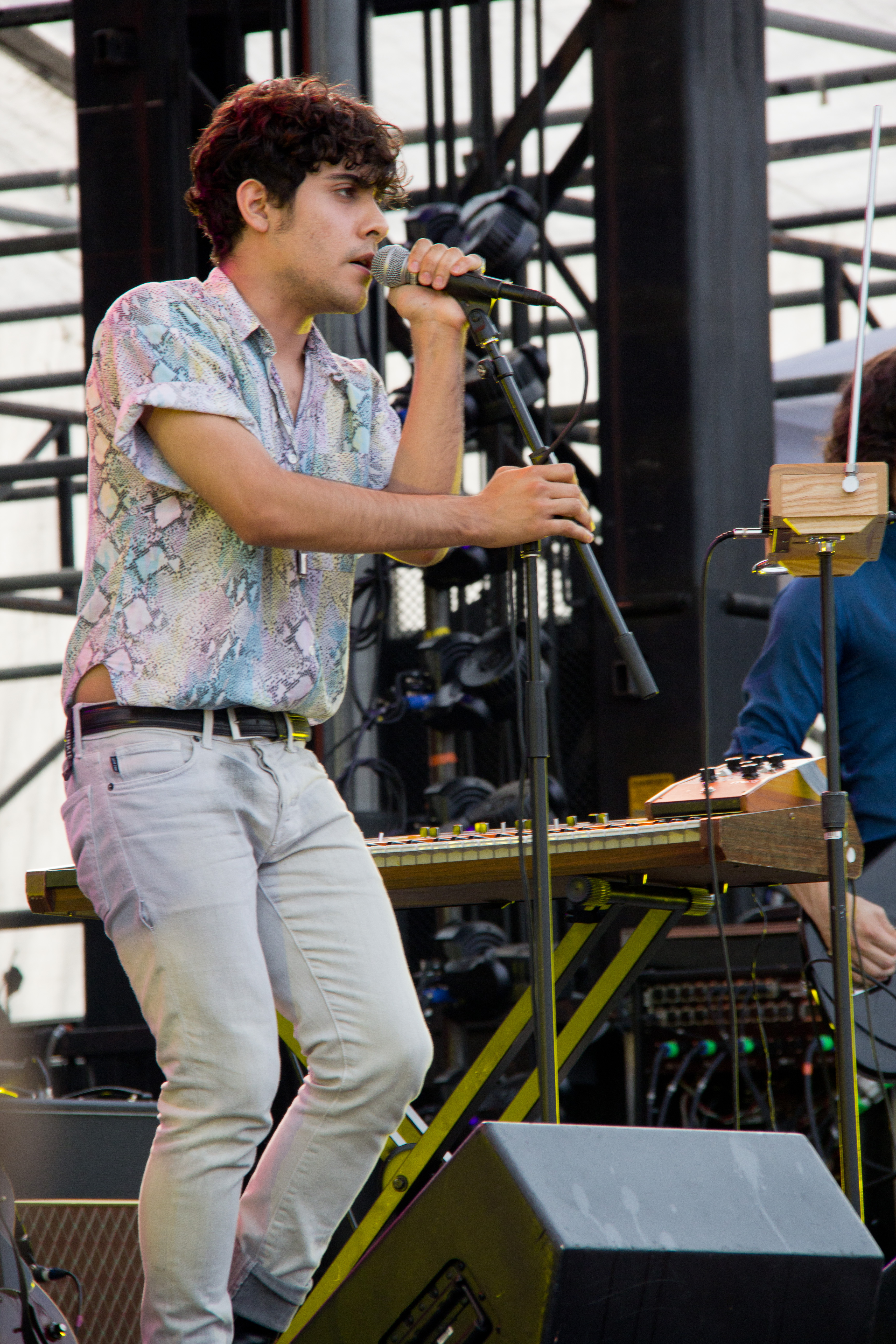 Alan Palomo of Neon Indian at Governors Ball 2011